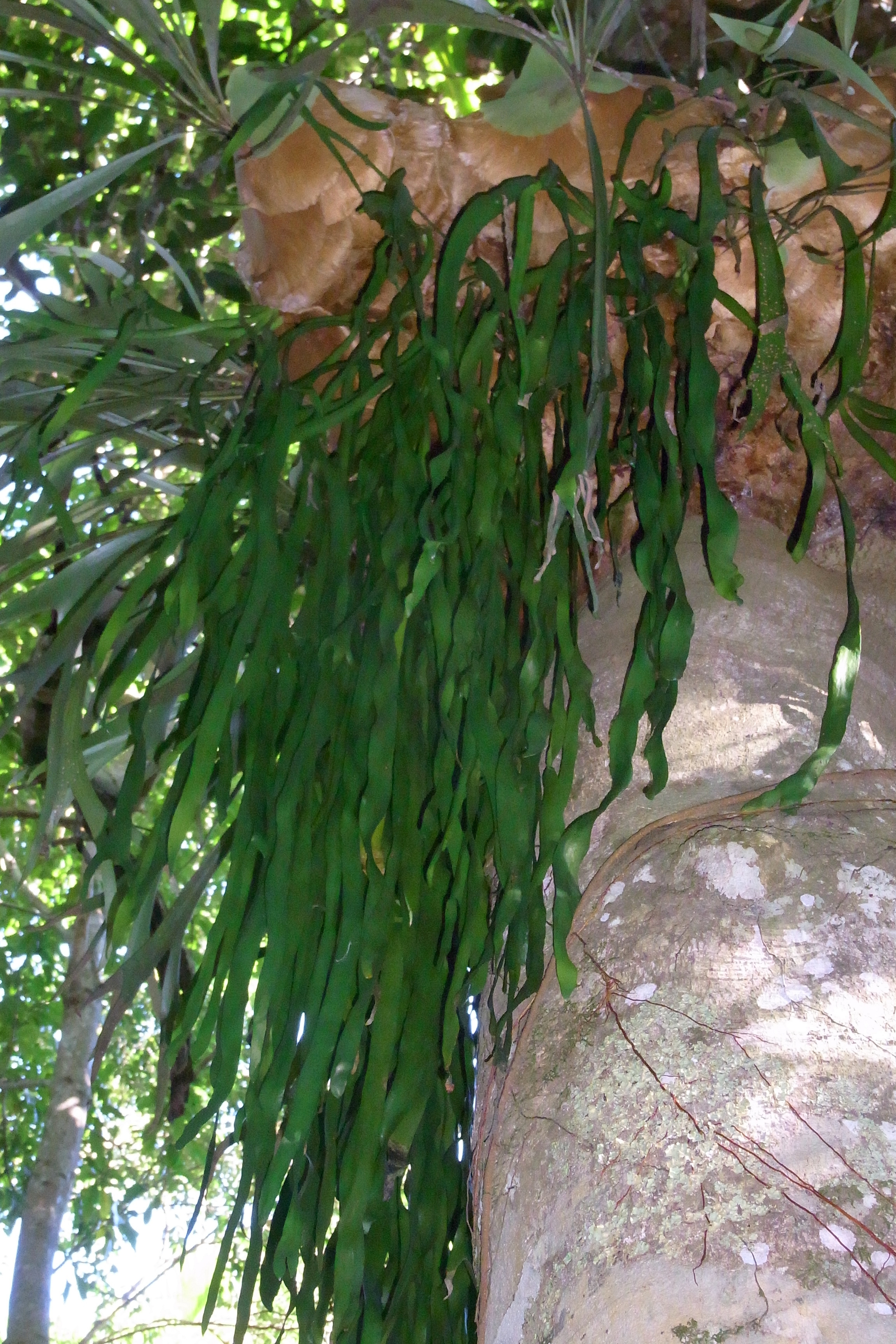 Ribbon Fern (Ophioglossum pendulum) Sea Acres National Park. NSW, Australia. Location: -31462122 152.93238